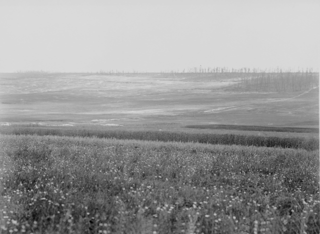 AWM caption : "A battle day photograph taken during the attack by the Australian and American troops at Hamel. Hamel Wood is seen in the background on the left. Two parachutes can be seen just previously dropped from aircraft and carrying ammunition to the forward troops. The supply of ammunition by parachutes was a pre-arranged part of aircraft cooperation."